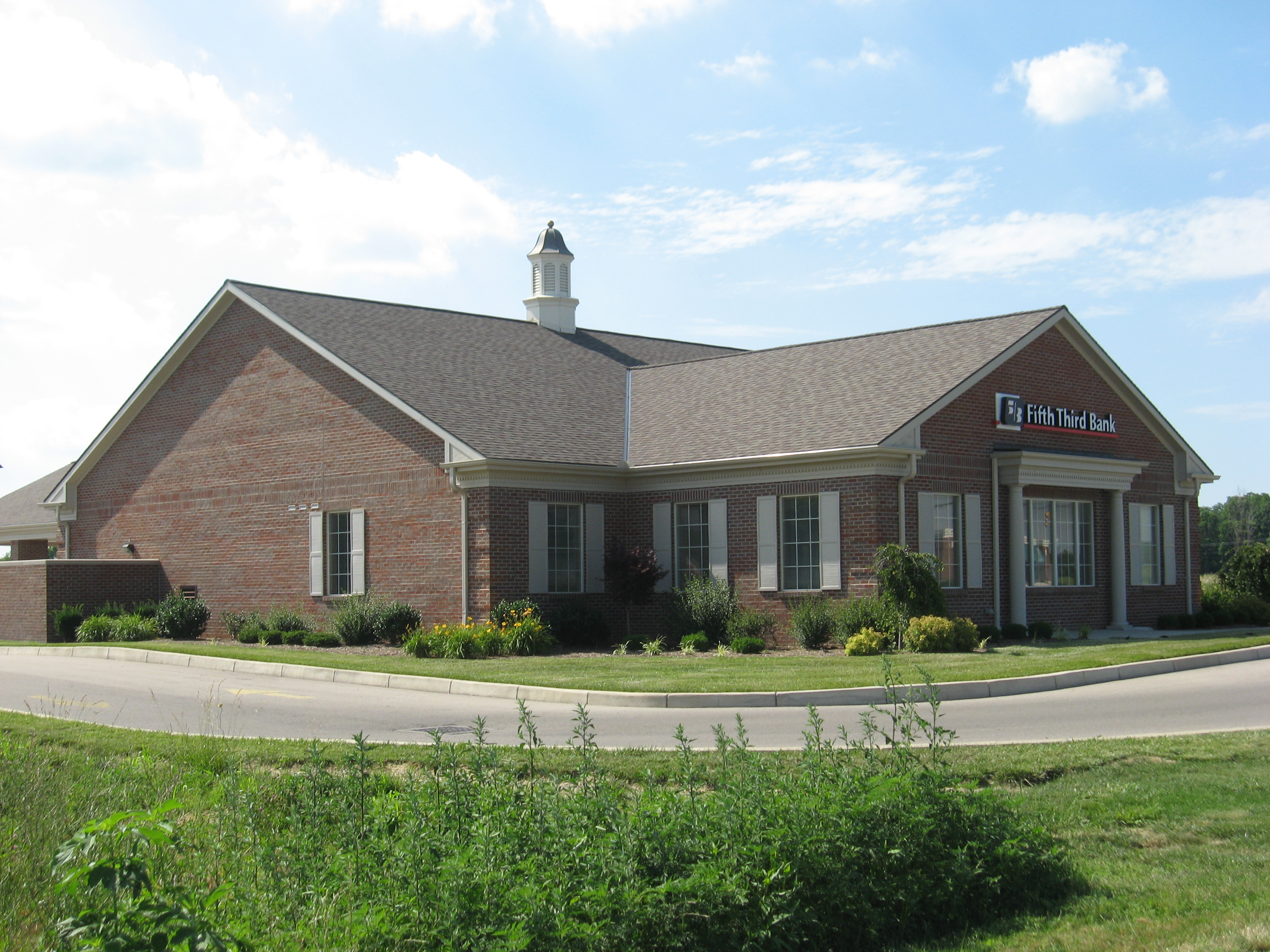 Fifth Third Bank location (Springboro, Ohio, USA)